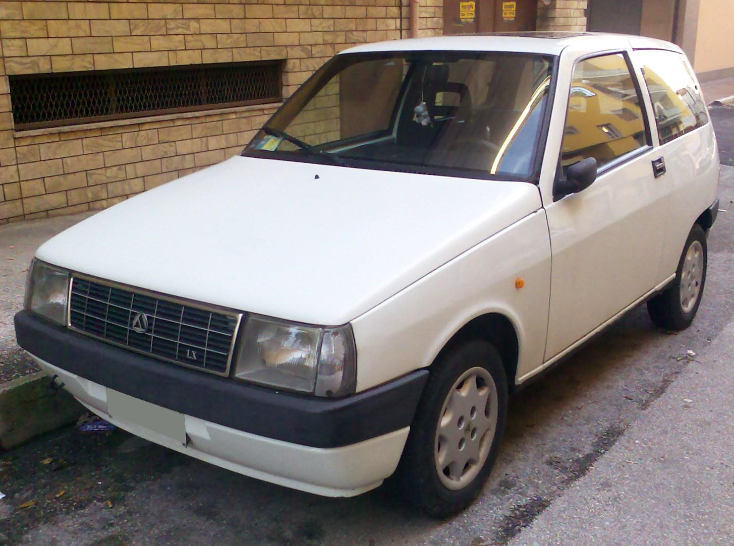 Classic Autobianchi Y10 LX front